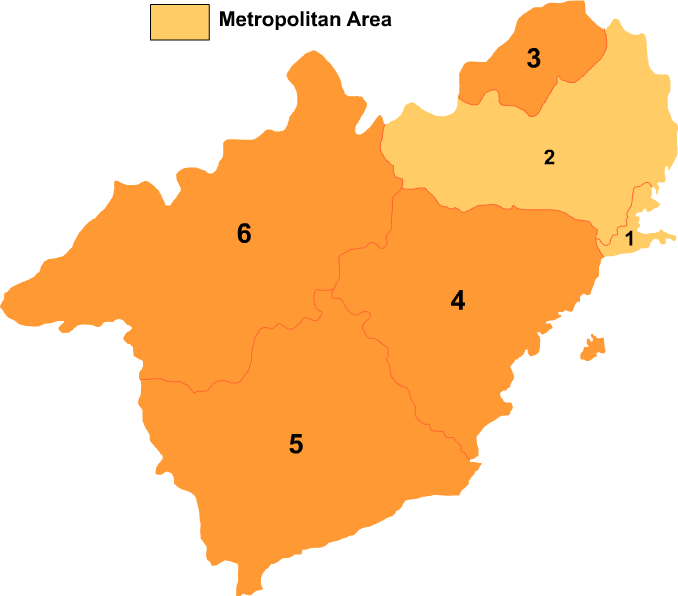 Map of Huludao in Liaoning province